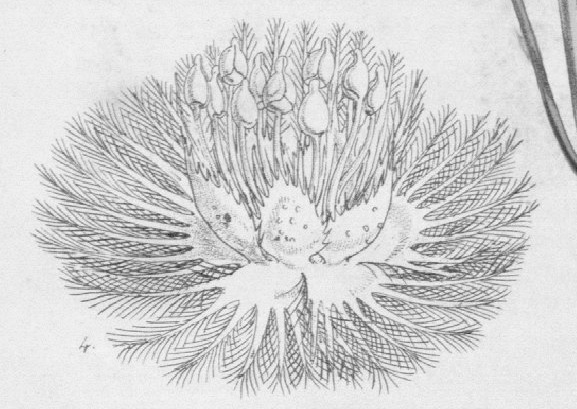 Volume 87 pl. 5286. The title is " VERTICORDIA nitens. Glistening Verticordia". The art and lithograhic work is by Walter Fitch and the printing was performed by Vincent Brow[n?].